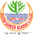 Logo of the Safiuddin Sarkar Academy & College , Tongi-Gazipur